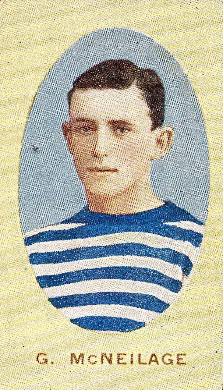 Cigarette card of George McNeilage from the Sniders & Abrahams 1910 series